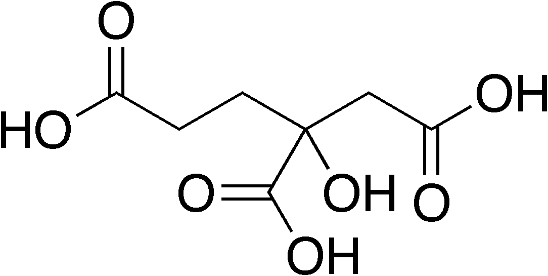 chemical structure of homocitric acid (homocitrate)